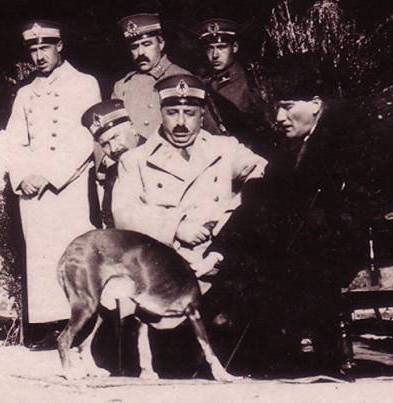 Photo of Atatürk